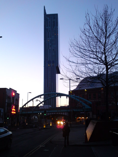 Beetham Tower Some like it, some hate it. I love it. To me it is symbolic of Manchester's upward reaching future.